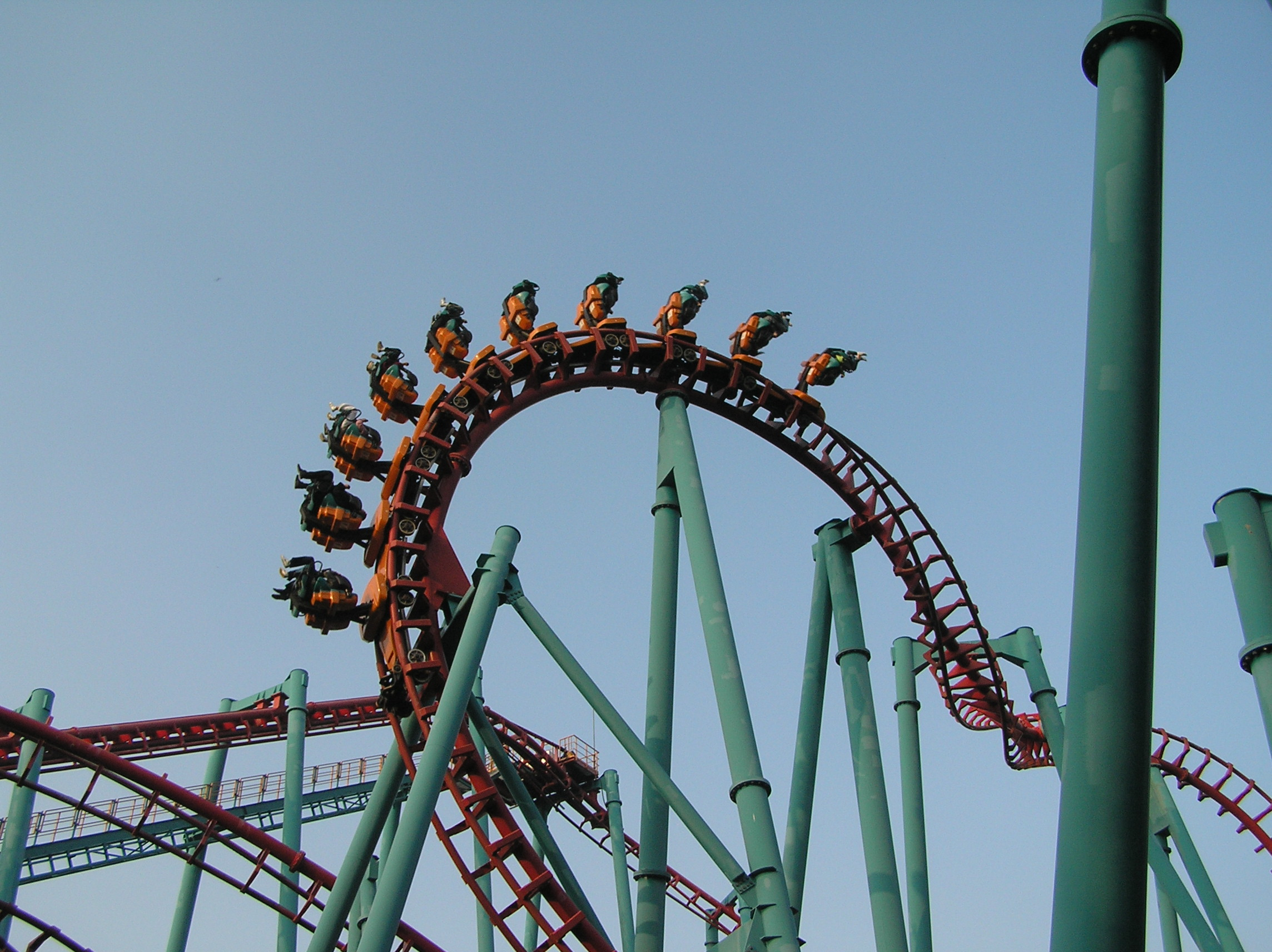 Vampire, Walibi Belgium, Belgium.